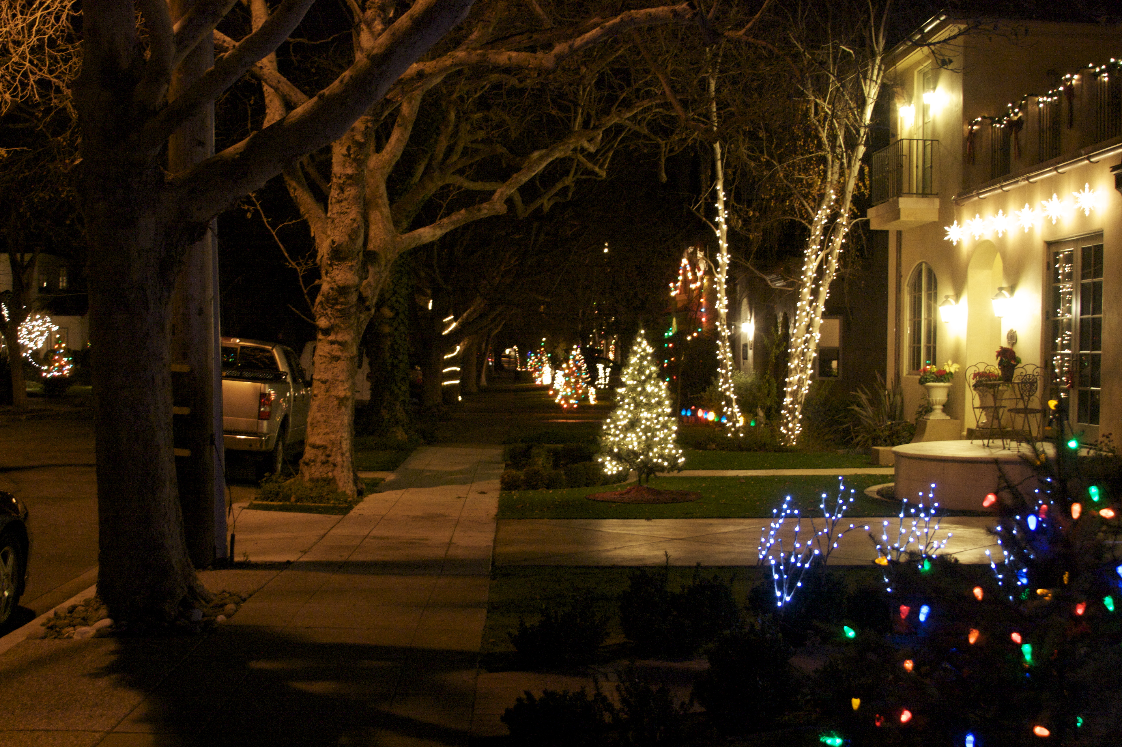 Carolyn Avenue, a residential street in Willow Glen, with Christmas decorations